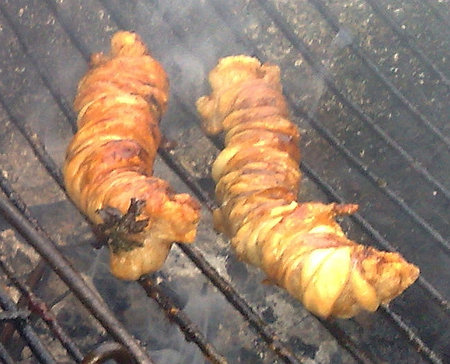 "Stigghiola" (lamb intestines)